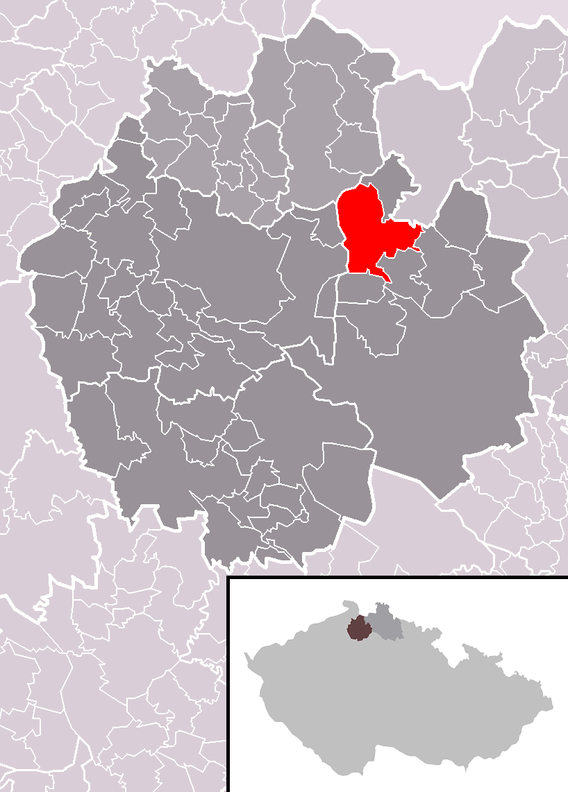 Location of Brniště municipality within Česká Lípa District and administrative area of Česká Lípa as a Municipality with Extended Competence.